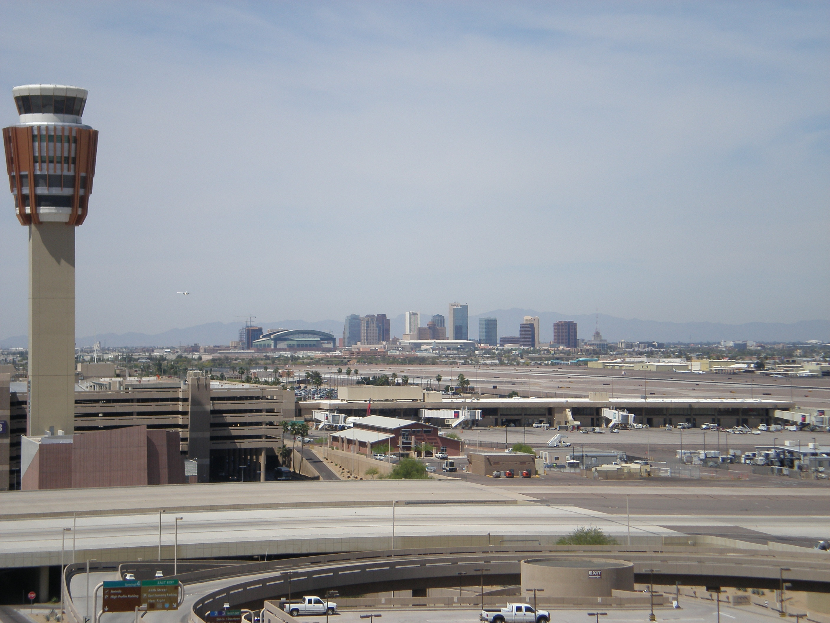 PHX Sky Harbor's control tower w/ downtown PHX in the background.